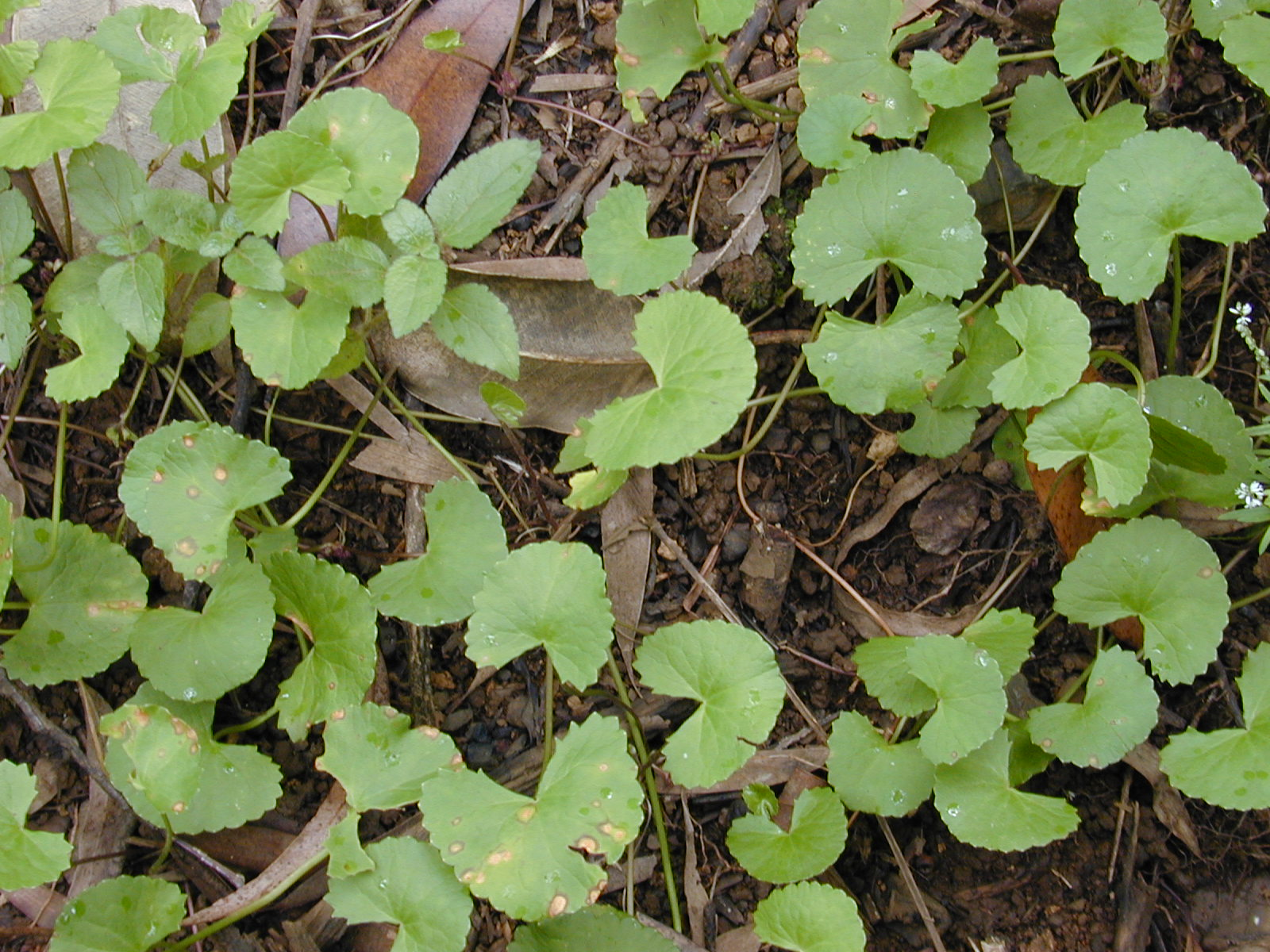 Centella asiatica (habit). Location: Maui, Wahinepee